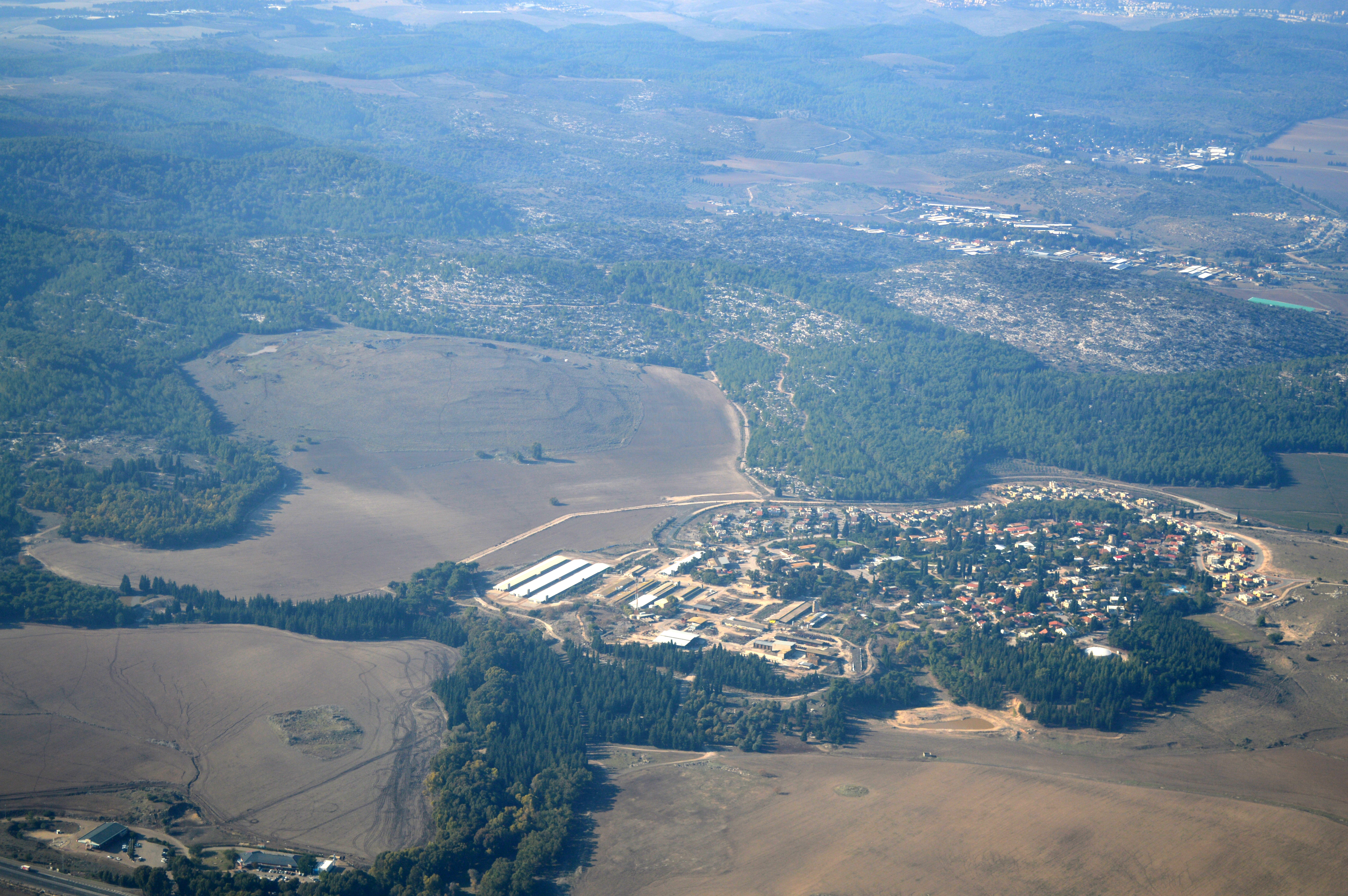 Aerial View of Israel